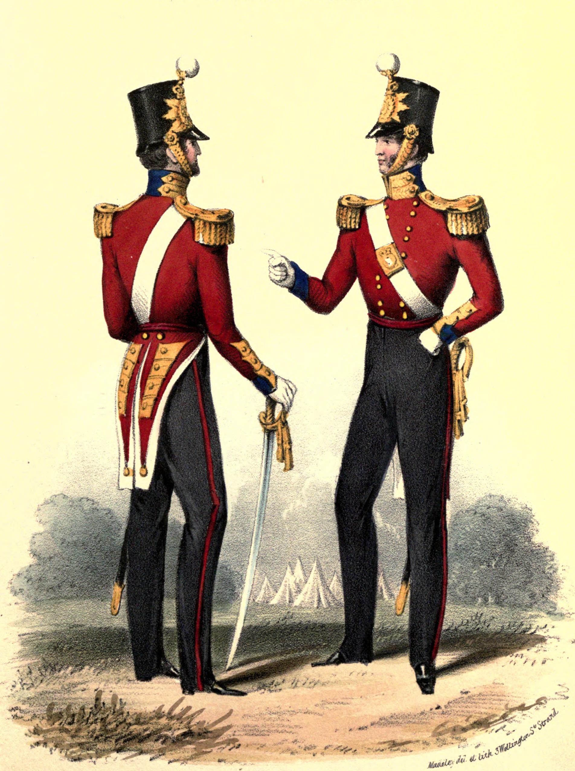 Costume of the 18th Royal Irish Regiment.